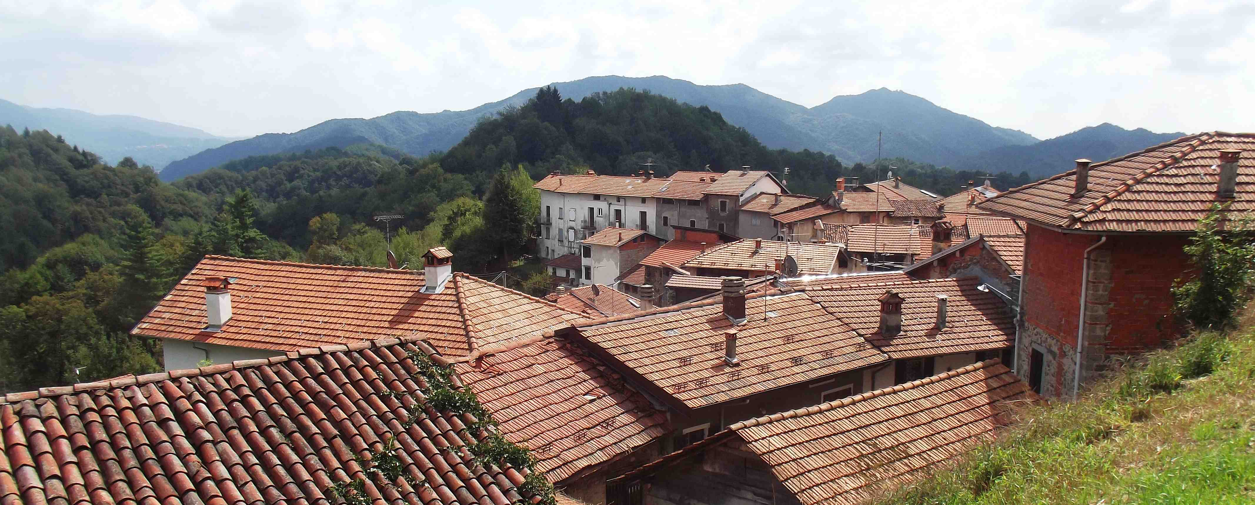 Ailoche (BI, Italy): panorama